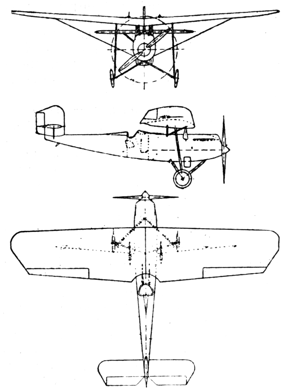 Rohrbach Ro IX Rofix 3-view drawing from Le Document aéronautique January,1927